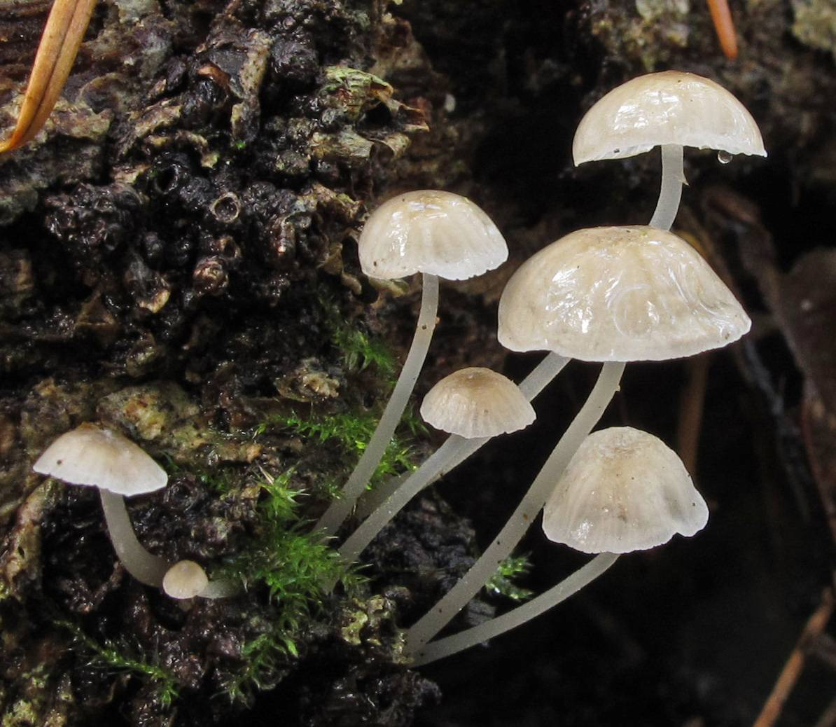 Fruit bodies of the agaric fungus Phloeomana speirea (Fr.) Redhead, until recently (2013) known as Mycena speirea (Fr.) Gillet. Photographed in Hillsboro, Oregon, USA.